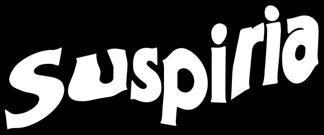 Suspiria Logo